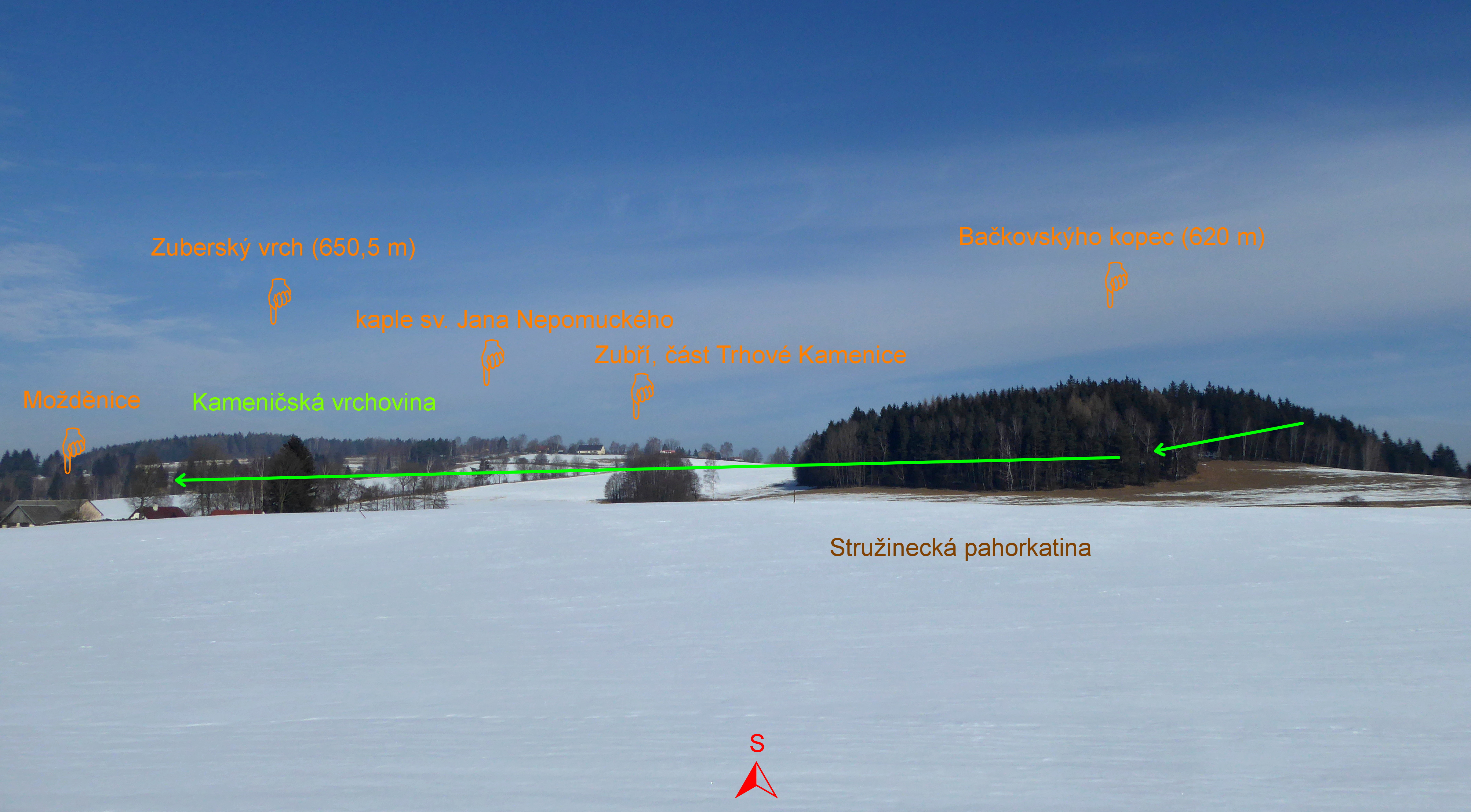 Protected landscape area Iron Mountains. On the photo on the left "Zuberský" hill (650.5 m), beneath it lies a hamlet (roofs of houses in the northern part), on the right is "Bačkovskýho" hill (620 m) with a wooded peak. "Možděnice" is a hamlet and the name of the cadastral territory with an area of 564.66 ha with a range of approximately 542-620 m above sea level in the landscape of Iron Mountains, within the administratives is part the village of "Vysočina" in the Chrudim district belonging to the Pardubice Region in the territory of the Czech Republic. The village buildings lies in the range 560-582 m above sea level on the southern slope of "Zuberský" hill (peak 650.5 m above sea level in the cadastral area "Trhová Kamenice"), along the nameless stream (the basin of the "Dlouhý" brook). One source of the stream originates in a nature reserve "Zubří", north of the hamlet, the second one springs northeast of the hamlet, on damp meadows on the slope of "Bačkovskýho" hill (620 m). The wooded peak is the highest point of the cadastral area "Možděnice" (range 542-620 m above sea level). On the photo are of Czech descriptions of localities and boundary of geomorphological units. Photo location: Czechia, Pardubice Region, municipality Vysočina, the hamlet of "Možděnice", "Stružinecká" knoll hill.